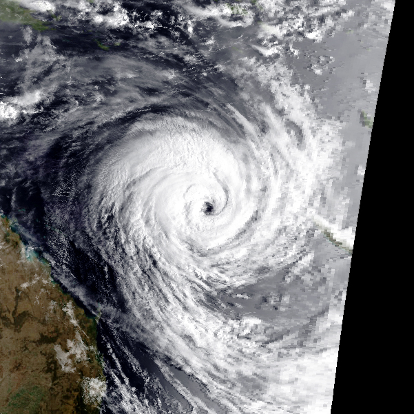 Tropical Cyclone Betsy on January 10, 1992